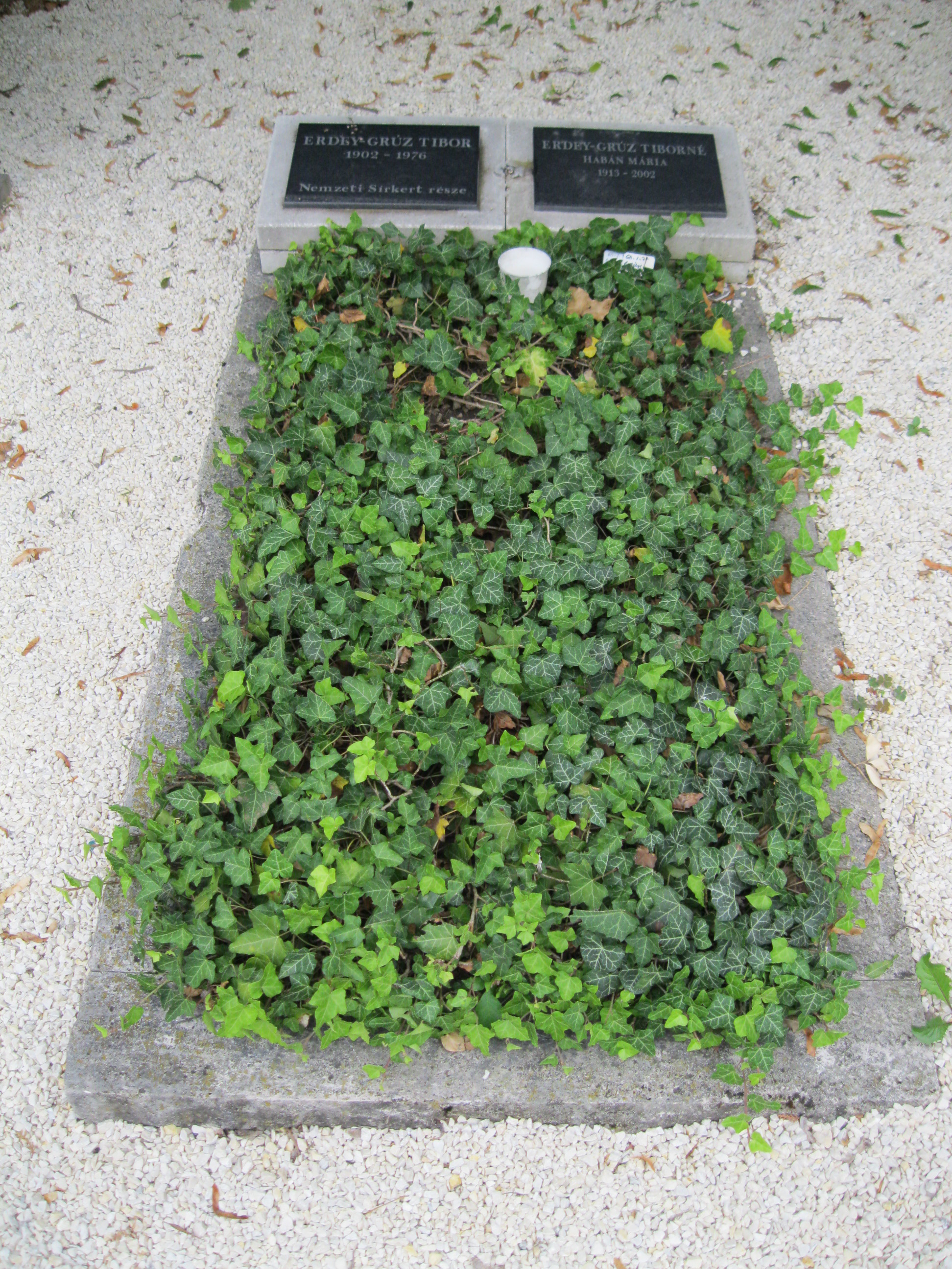 Tomb of Tibor Erdey-Grúz in Farkasréti Cemetery [6/1-1-75]